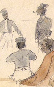 Sketch of Cape Colony soldiers. Cape Mounted Riflemen. 1850s.